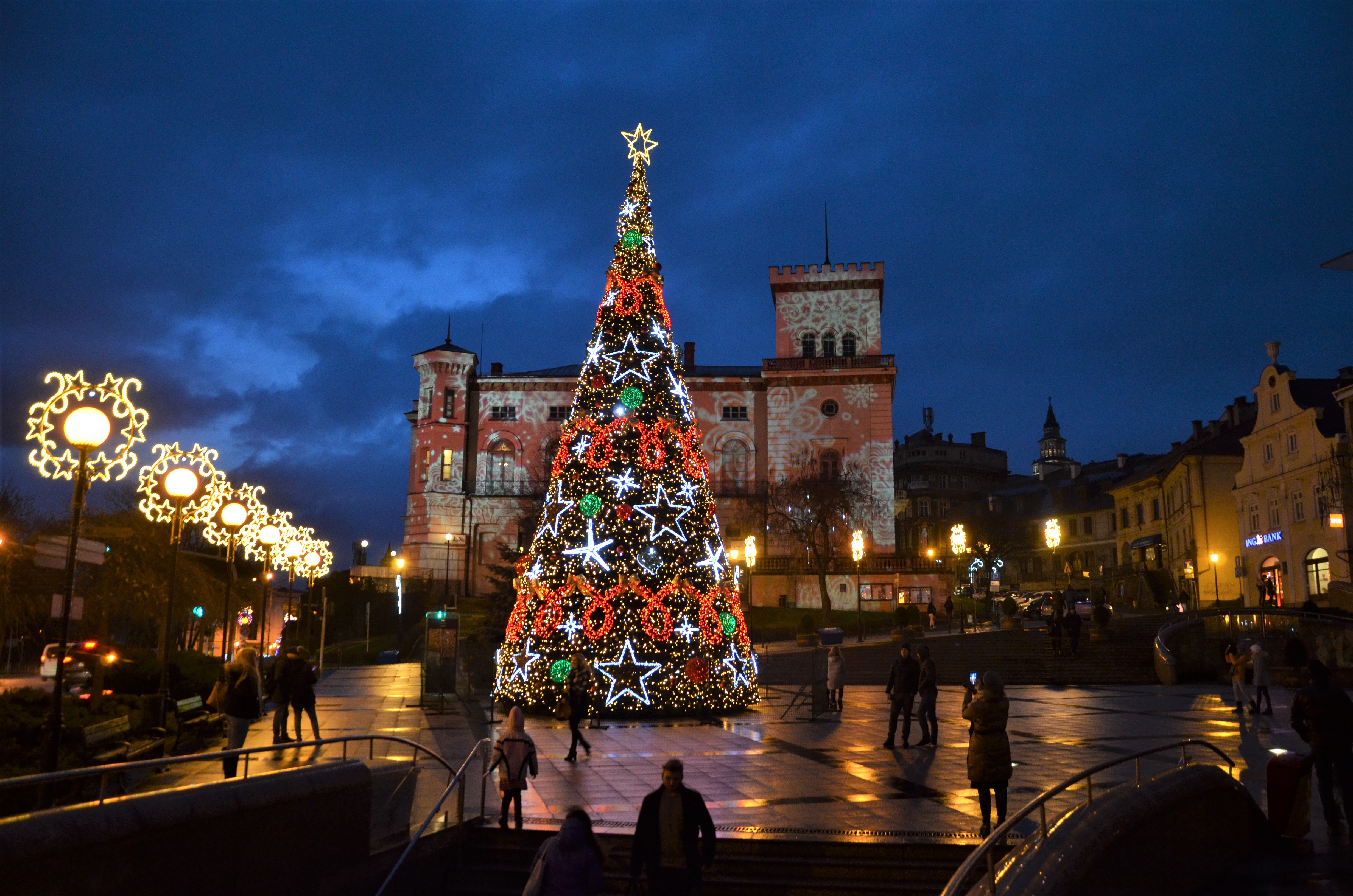 Bielsko-Biała Castle